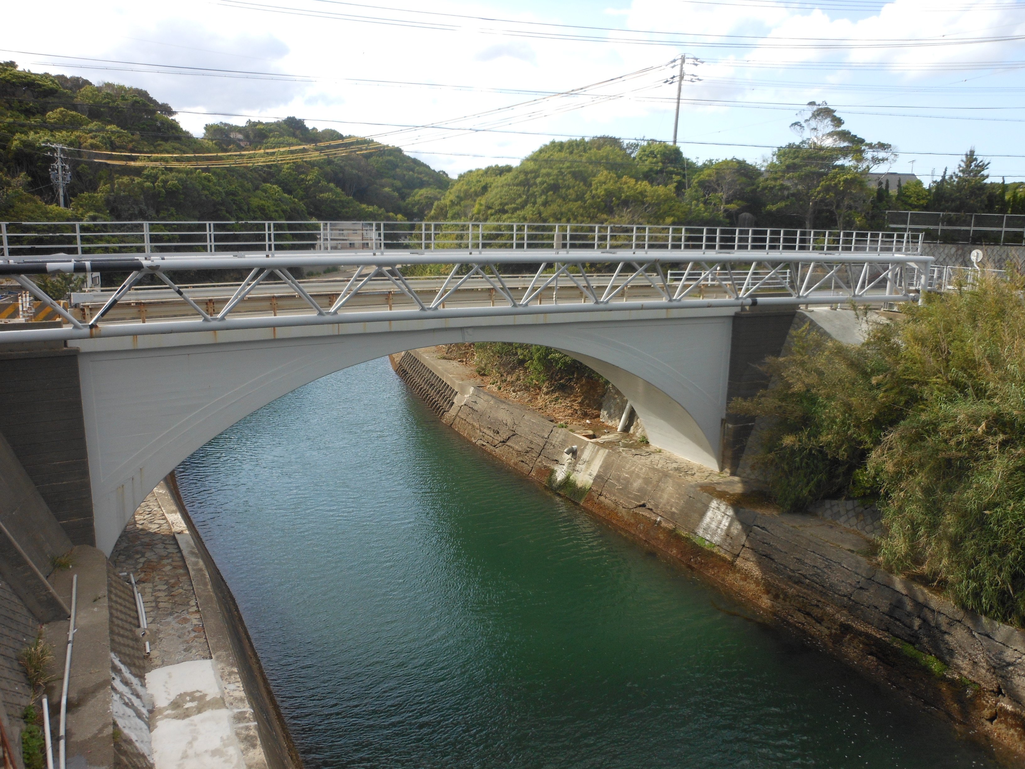 This is the Fukaya Bridge, which connects Daiocho-Funakoshi and Shimacho-Katada in Shima, Mie, Japan.